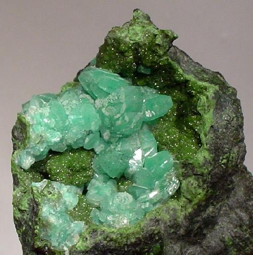 Adamite (Var.: Cuprian Adamite), Olivenite Locality: Tsumeb Mine (Tsumcorp Mine), Tsumeb, Otjikoto (Oshikoto) Region, Namibia (Locality at ) Size: 5.0 x 3.1 x 2.2 cm. Glassy and lustrous, seafoam-green cuprian adamite crystals richly and attractively line a 2.2 cm wide vug lined with sparkly, botryoidal, green olivenite in sulfide matrix from Tsumeb. Ex. Rob Smith Collection.